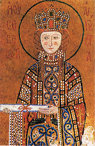 Empress Irene (image from Agia Sofia)